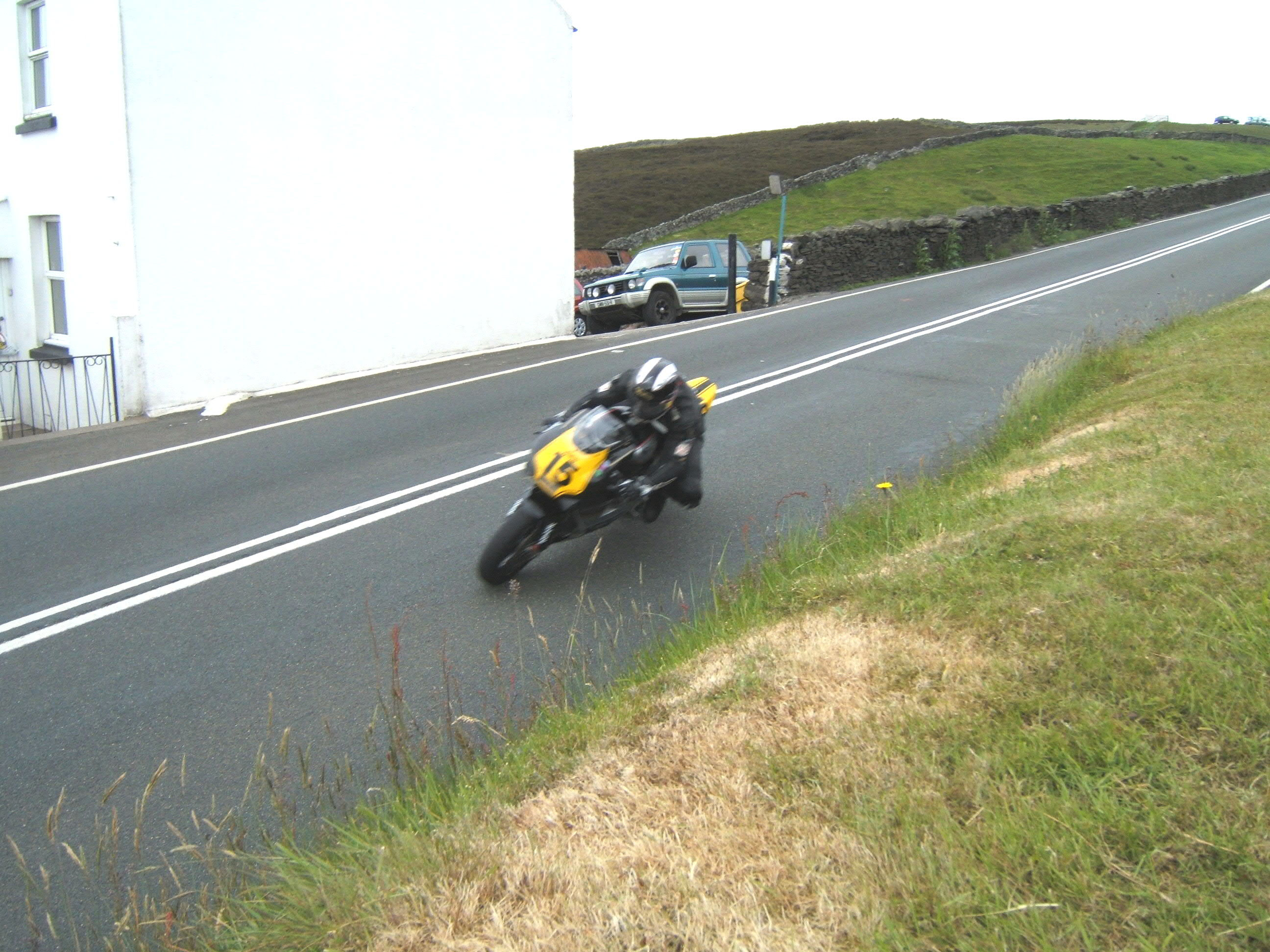 Michael Dunlop at Kate's Cottage in 2009, a left-bend on the TT course starting the run down off the Snaefell Mountain section, riding an updated rotary-engined Norton on a demonstration lap for fans as the bike didn't qualify to race